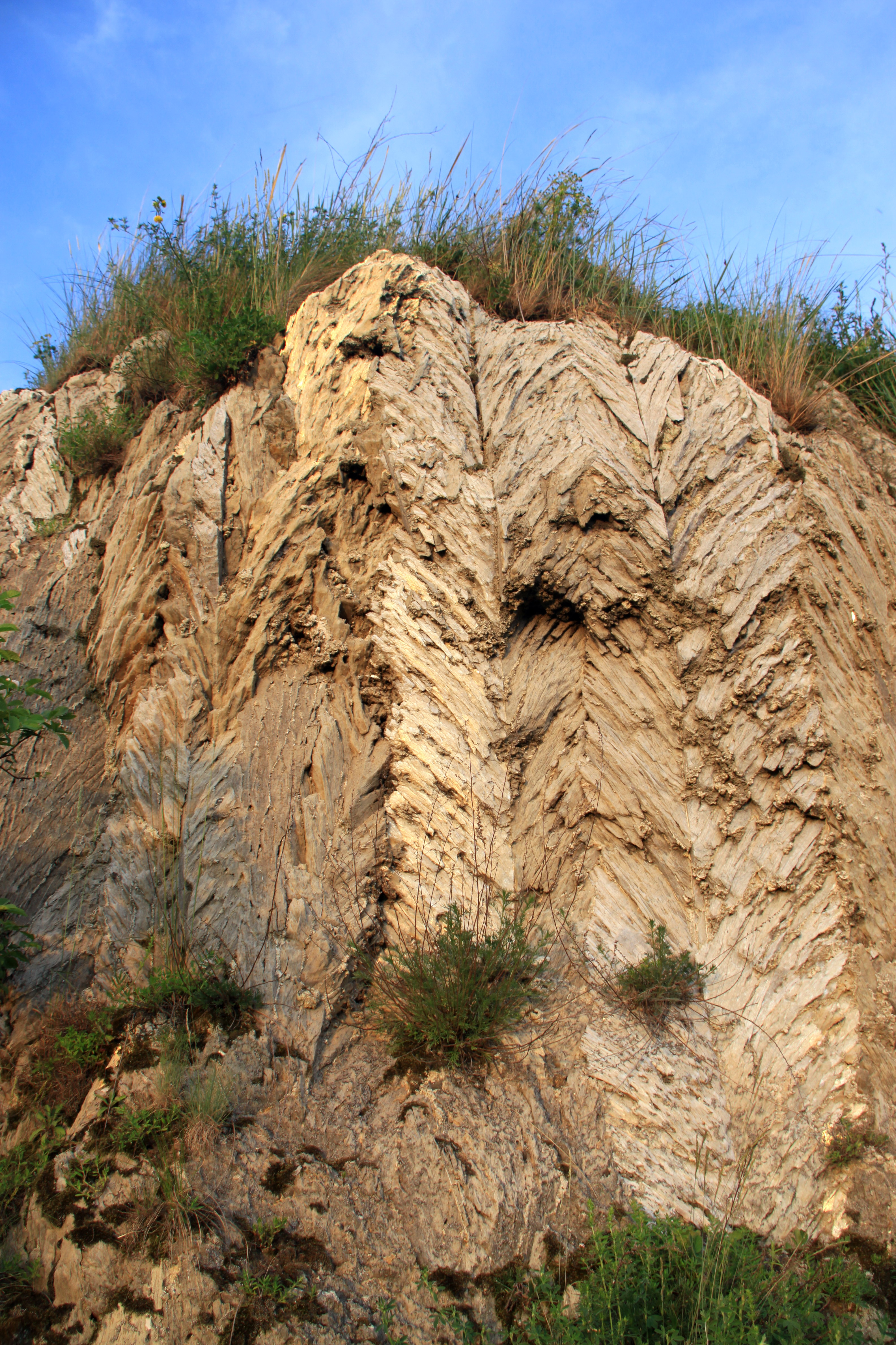 Marzęcin, Świętokrzyskie Voivodeship - a rock of gypsum crystalline.